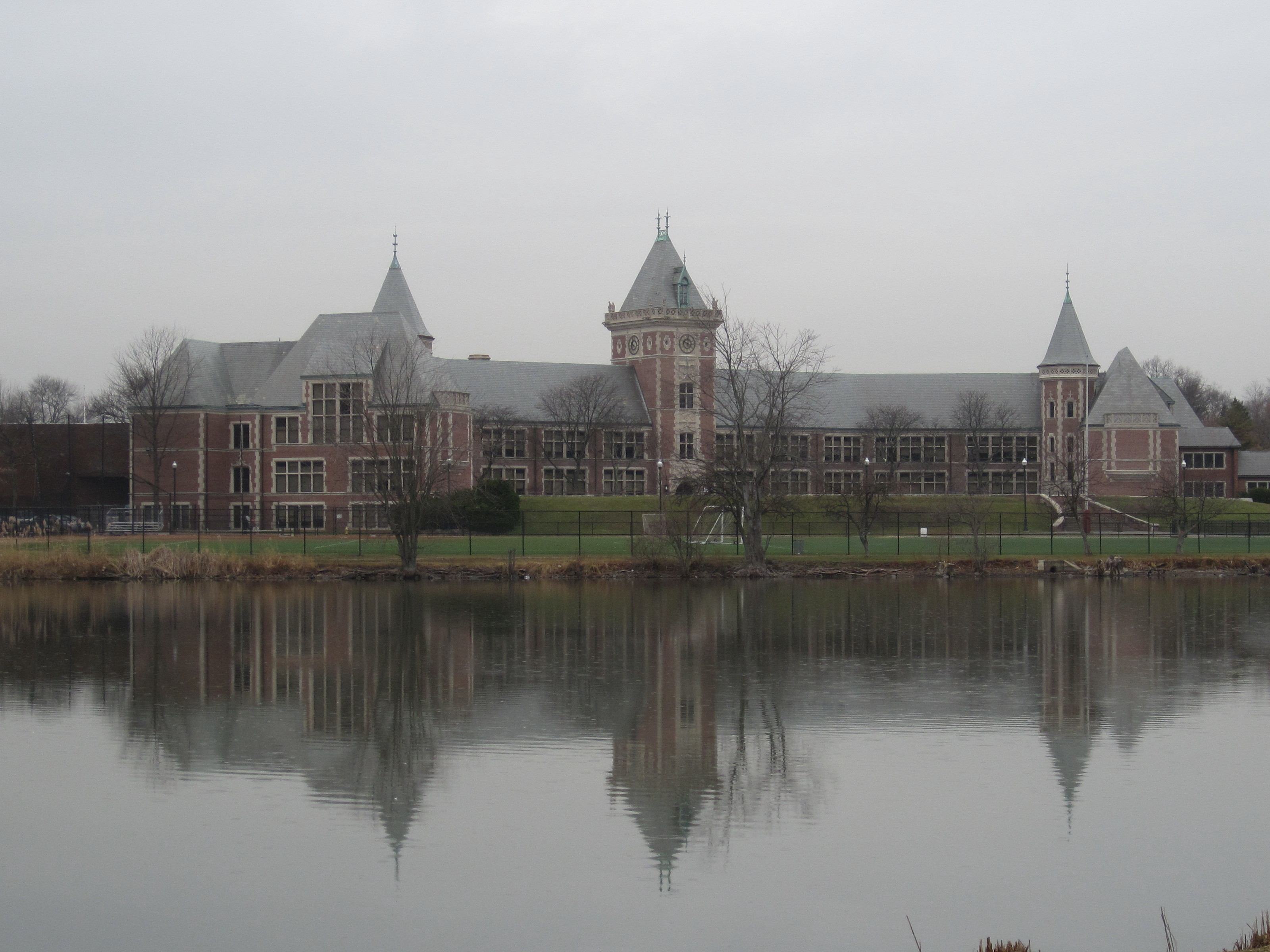 Phot of New Rochelle High School in 2012